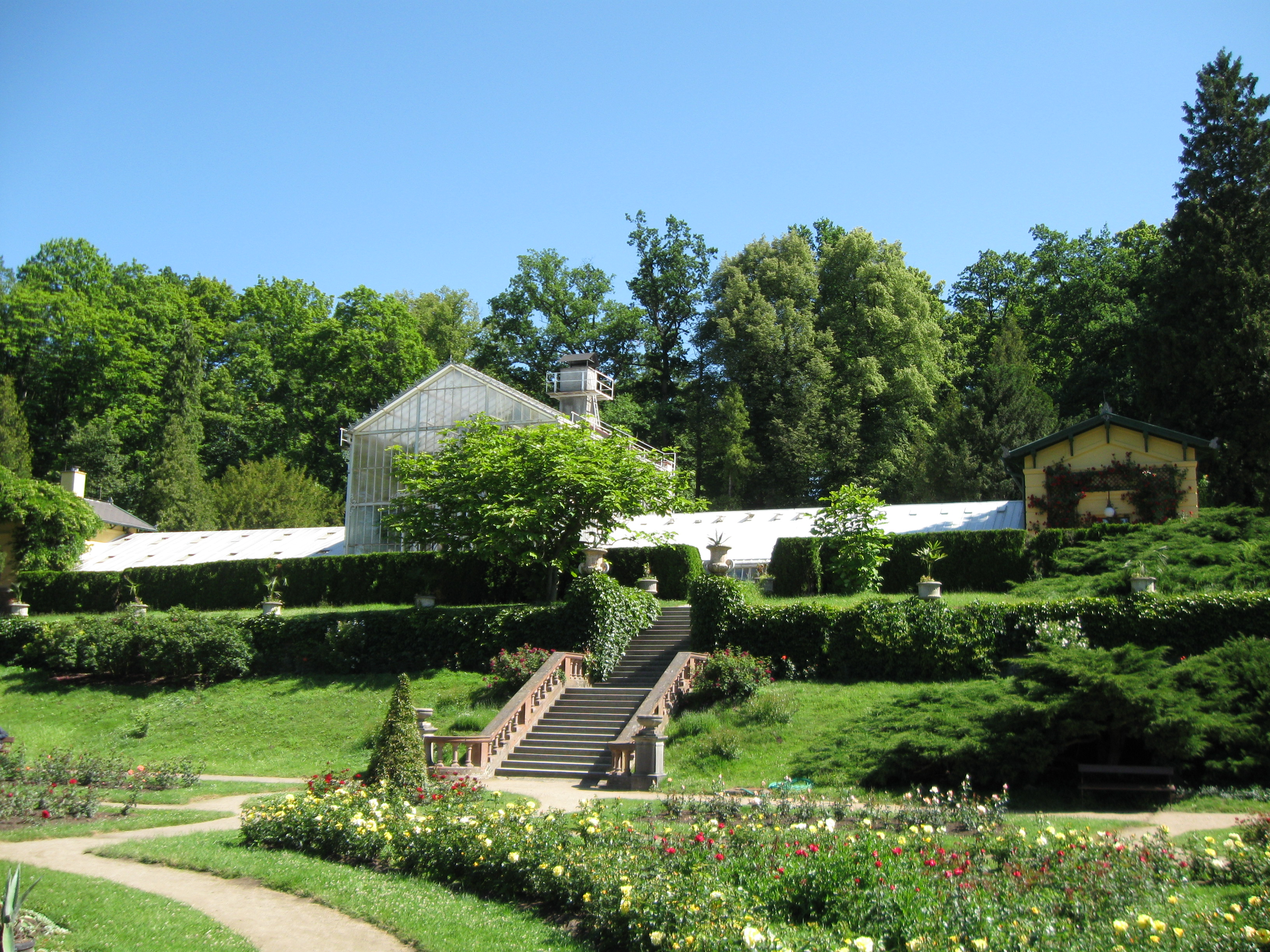 Rose Garden at Konopiště Palace, Benešov District, Czech Republic.